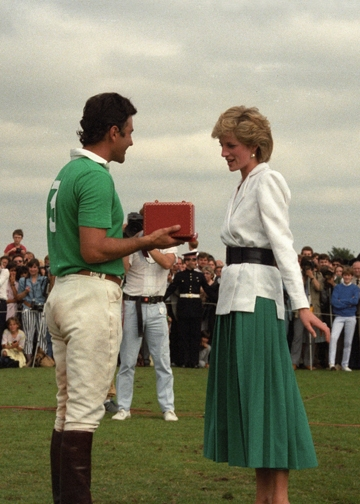 Memo Gracida with Princess Diana in 1986